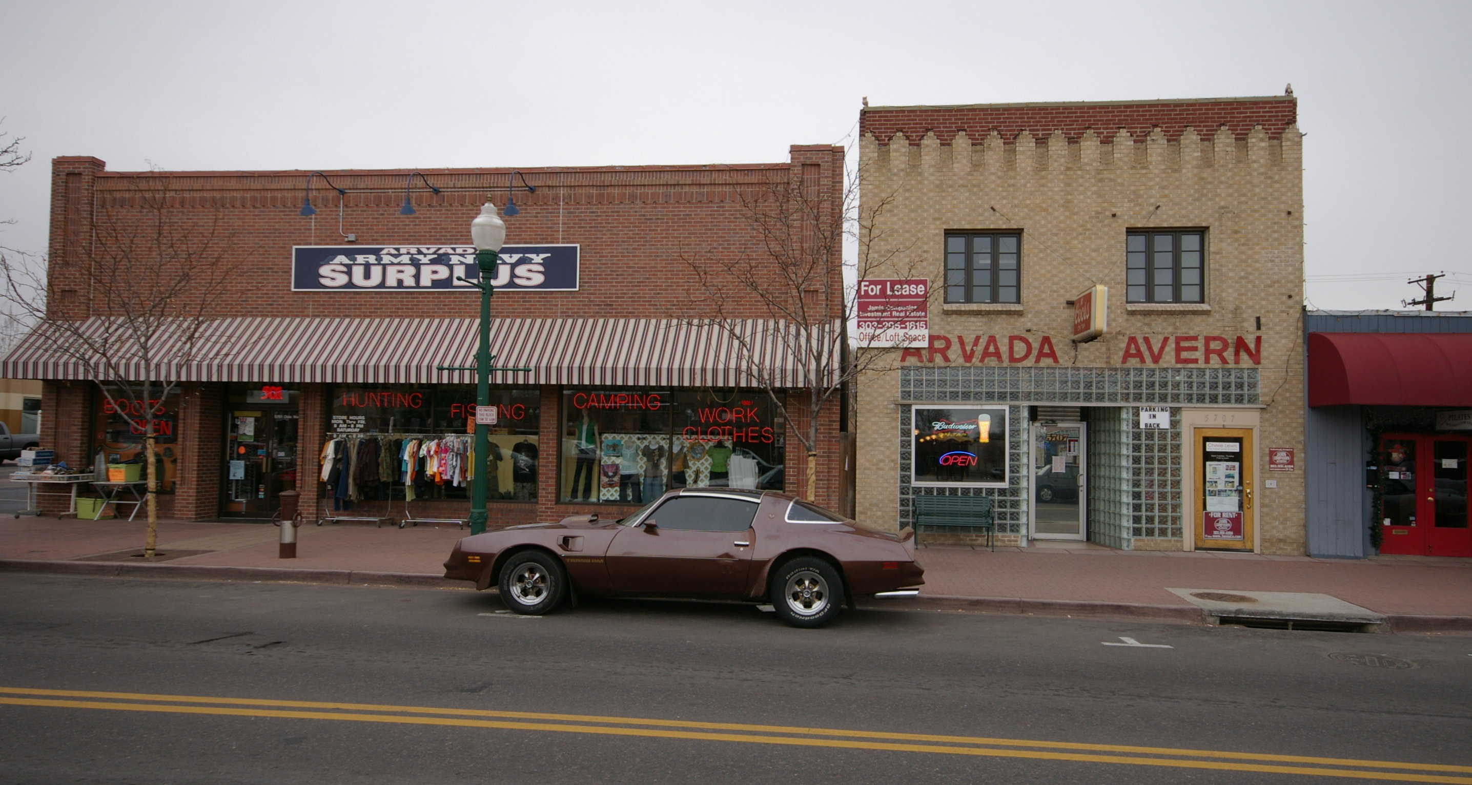 A couple of the shops in the Arvada "Olde Town" district.